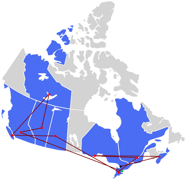 Racecourse for The Amazing Race Canada 7